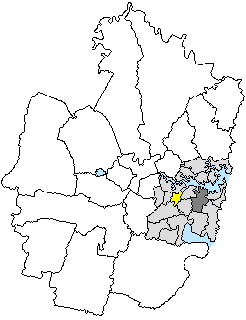 Map of Sydney/New South Wales/Australia, LGA of Ashfield Municipality highlighted